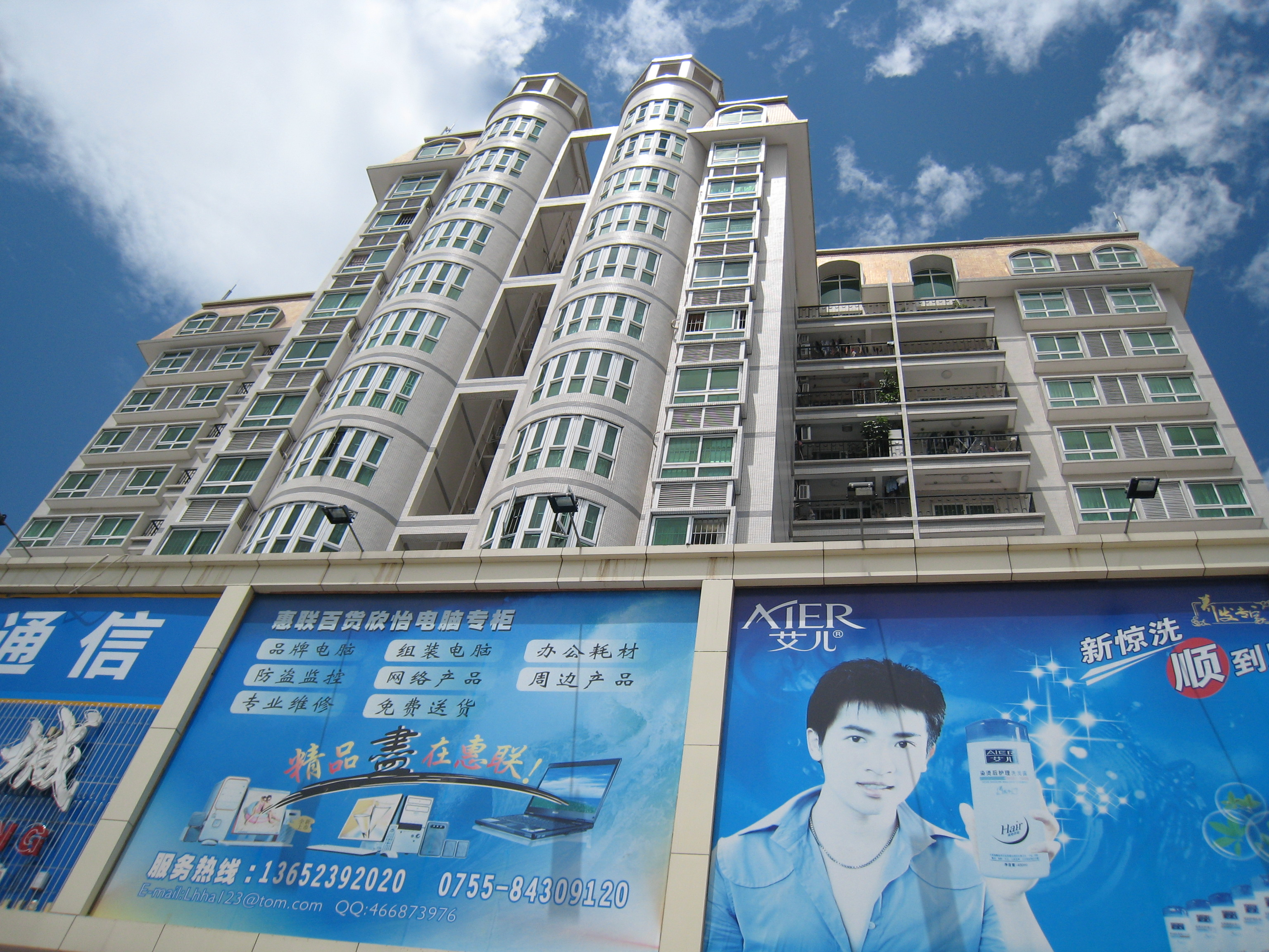 one of the new buildings in Wangmuxu